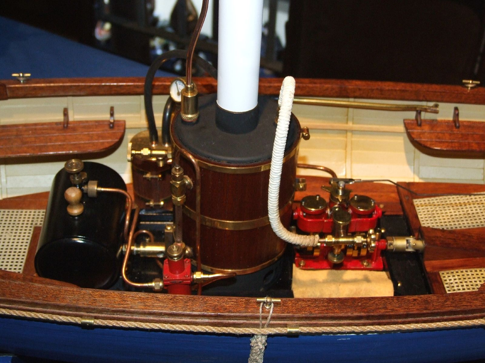 The neat gas fired steam plant in steamboat "Puffing Billy" as seen at Kew Bridge engines recent " trains and boats" exhibition.